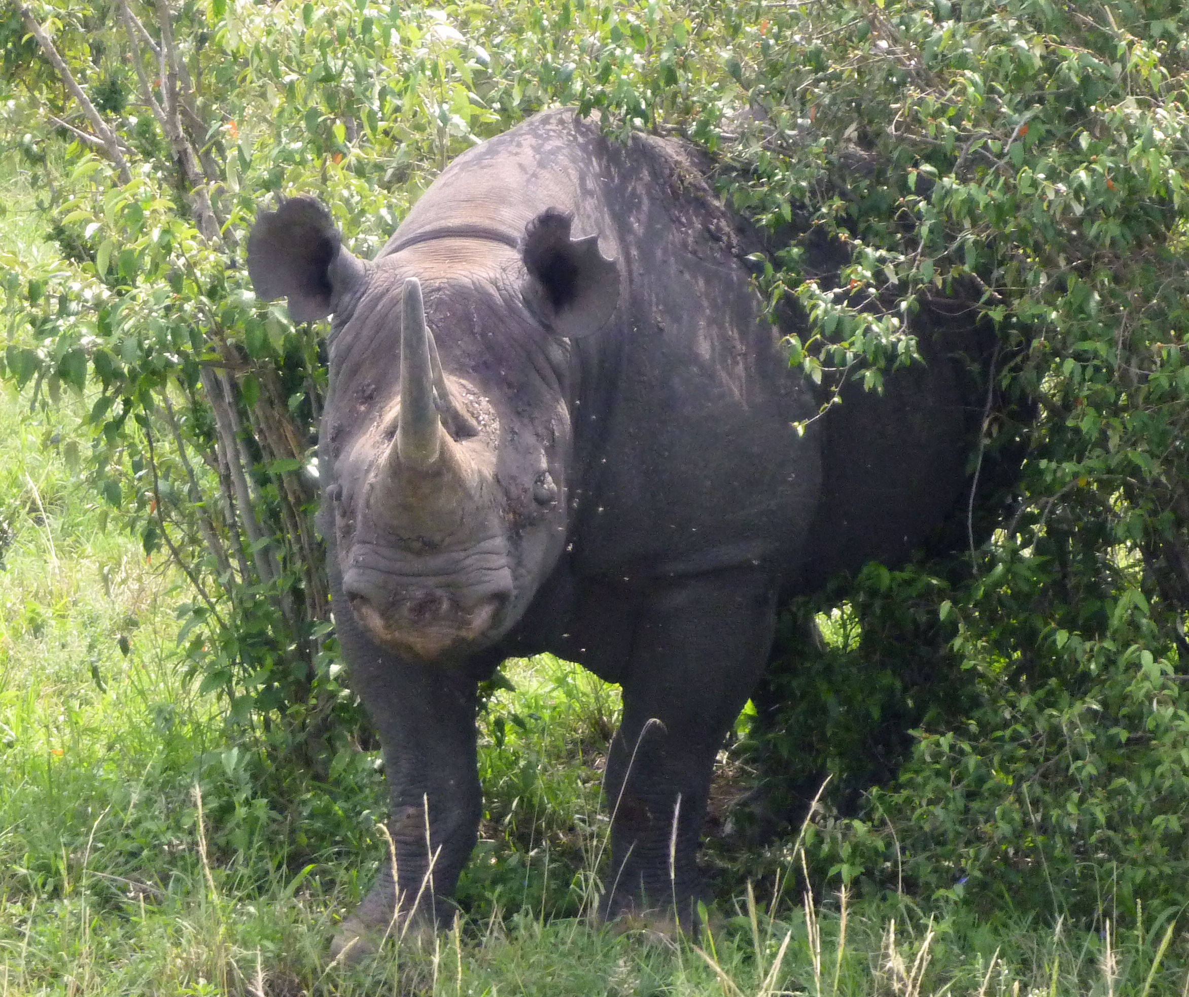 A black Rhino (Diceros bicornis michaeli) in its habitat in the Masai Mara, Kenya